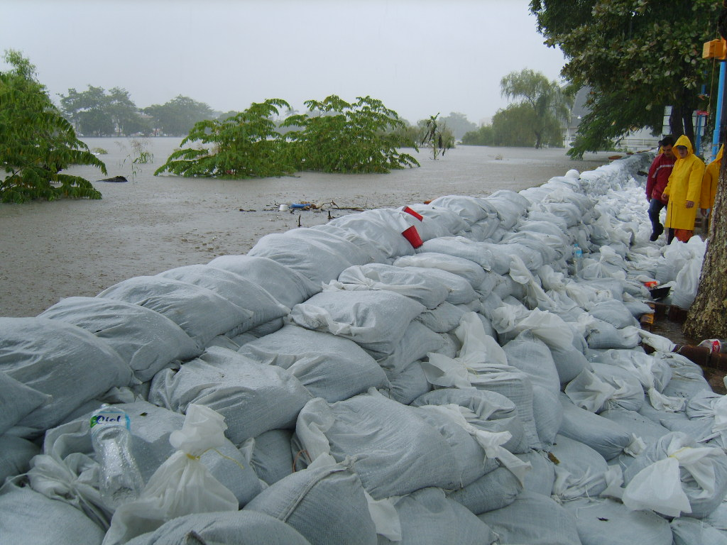 A lot of things are making my city flood, the high amount of rain, the fact that the dam that contains this River is getting it's doors open and the moon passing by closer to earth and it's gravitational field causing high tides in the coasts..... this is right in the middle of my town and look how high the water is. I volunteered to fill bags with sand and use them to contain the water.